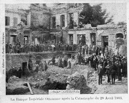 Inside the building of Ottoman Bank after the explosion, April 29, 1903